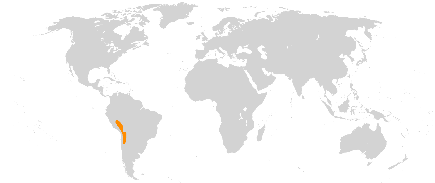 Vicuña (Vicugna vicugna) range